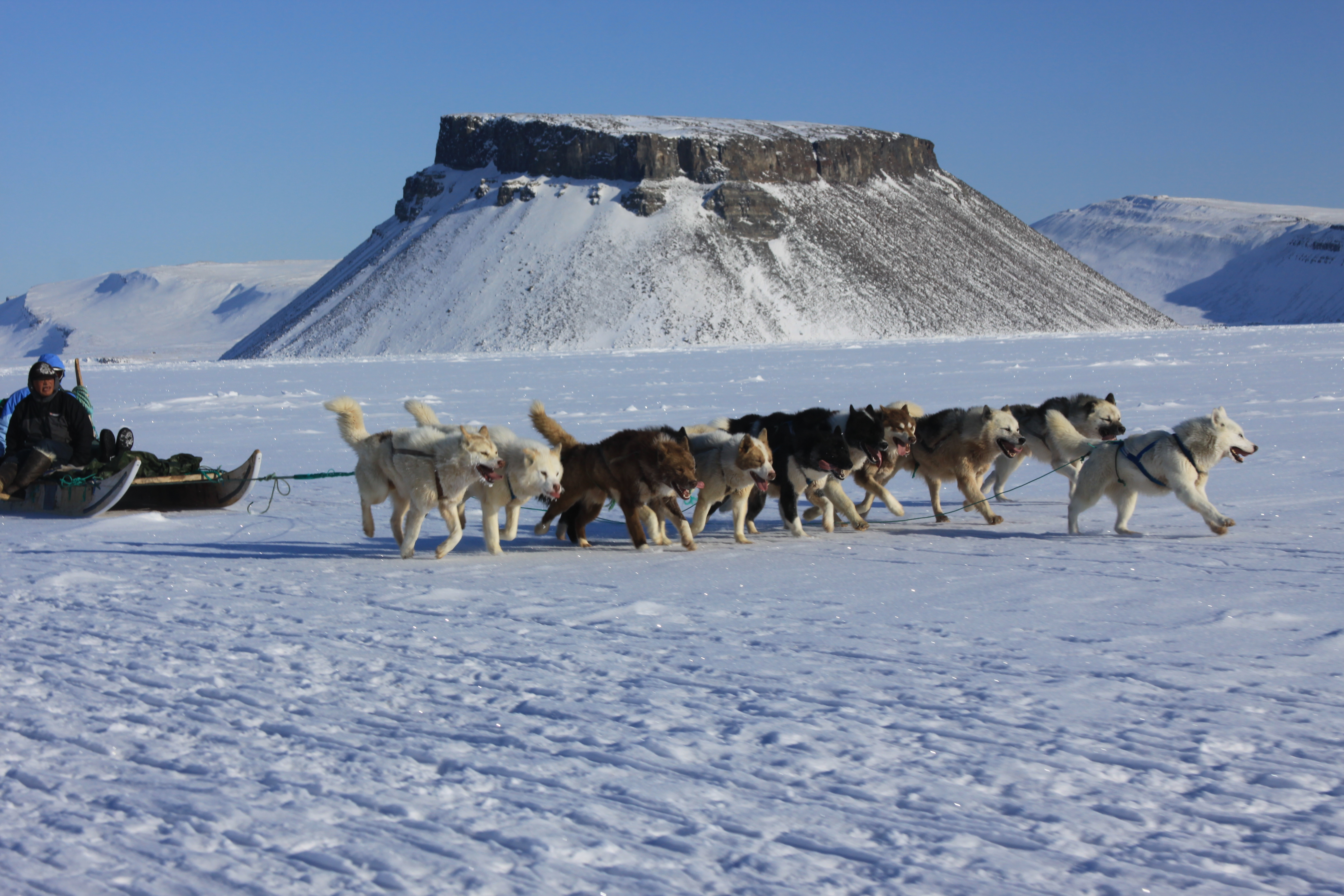 Annual Dog Sled Race Sled Dogs Mt Dundas Thule Greenland